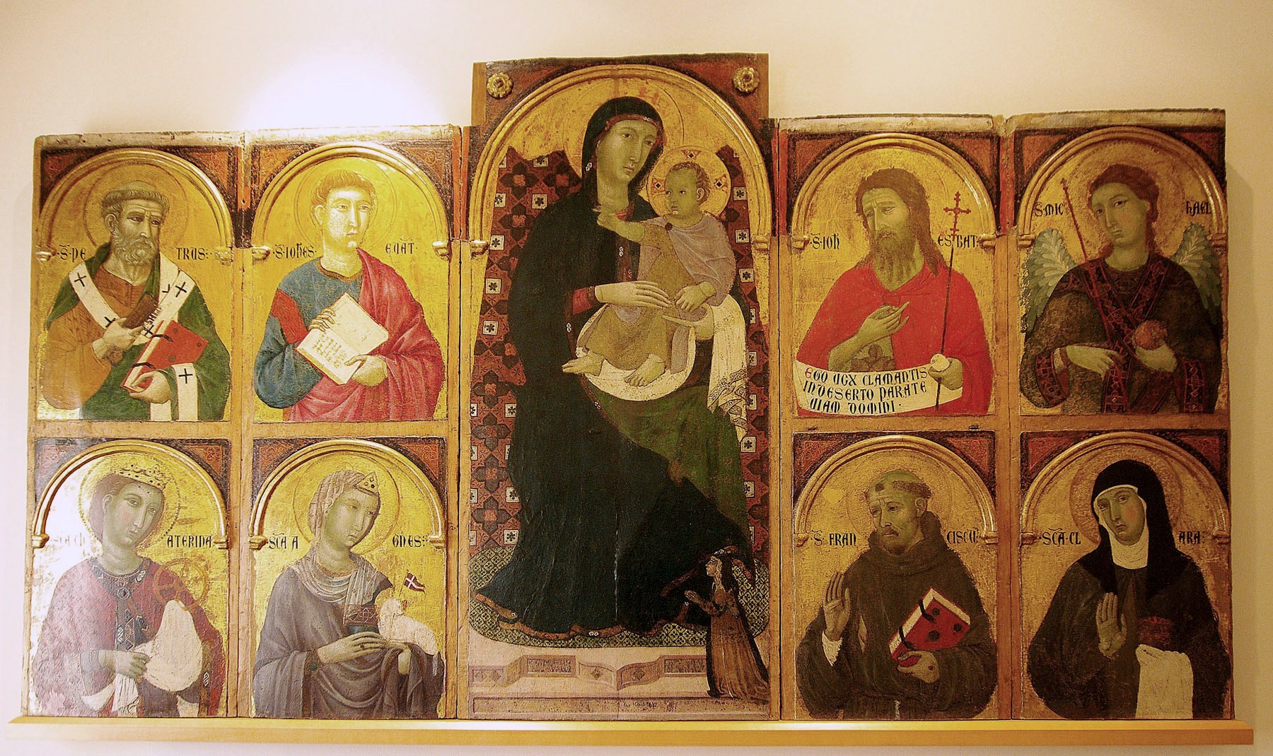 Memmo di Filippuccio. The Virgin and Child with the Donor, a Poor Clare Nun, and Saints. ca. 1310-17, San Gimignano, Pinacoteca